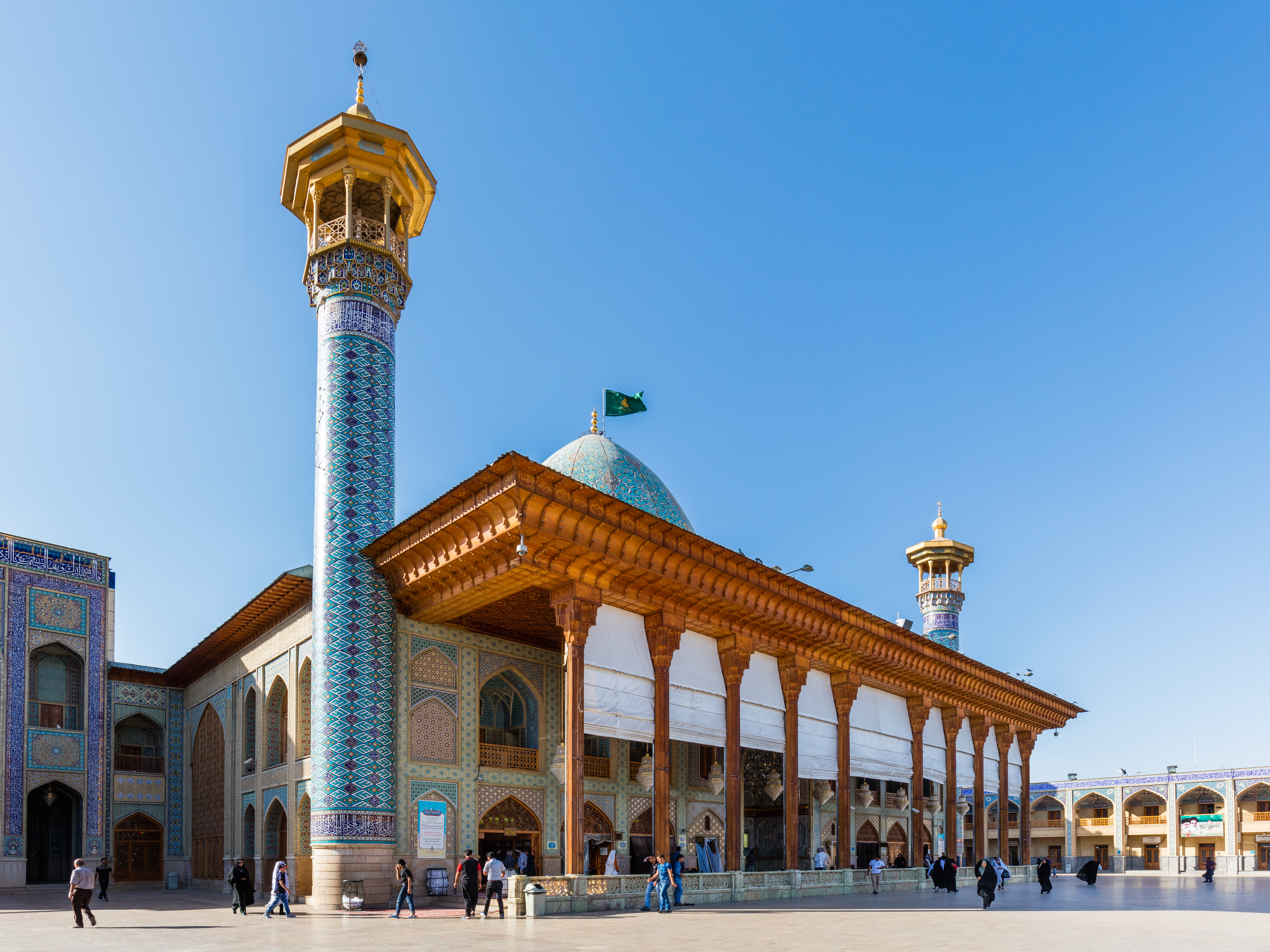 View of Shāh Chérāgh (Persian for "King of the Light"), a funerary monument and mosque in Shiraz, Iran. It houses the tomb of the brothers Ahmad and Muhammad, sons of Mūsā al-Kādhim and brothers of ‘Alī ar-Ridhā. The two took refuge in the city during the Abbasid persecution of Shia Muslims. The tombs became celebrated pilgrimage centres in the 14th century when Queen Tashi Khatun erected a mosque and theological school in the vicinity.